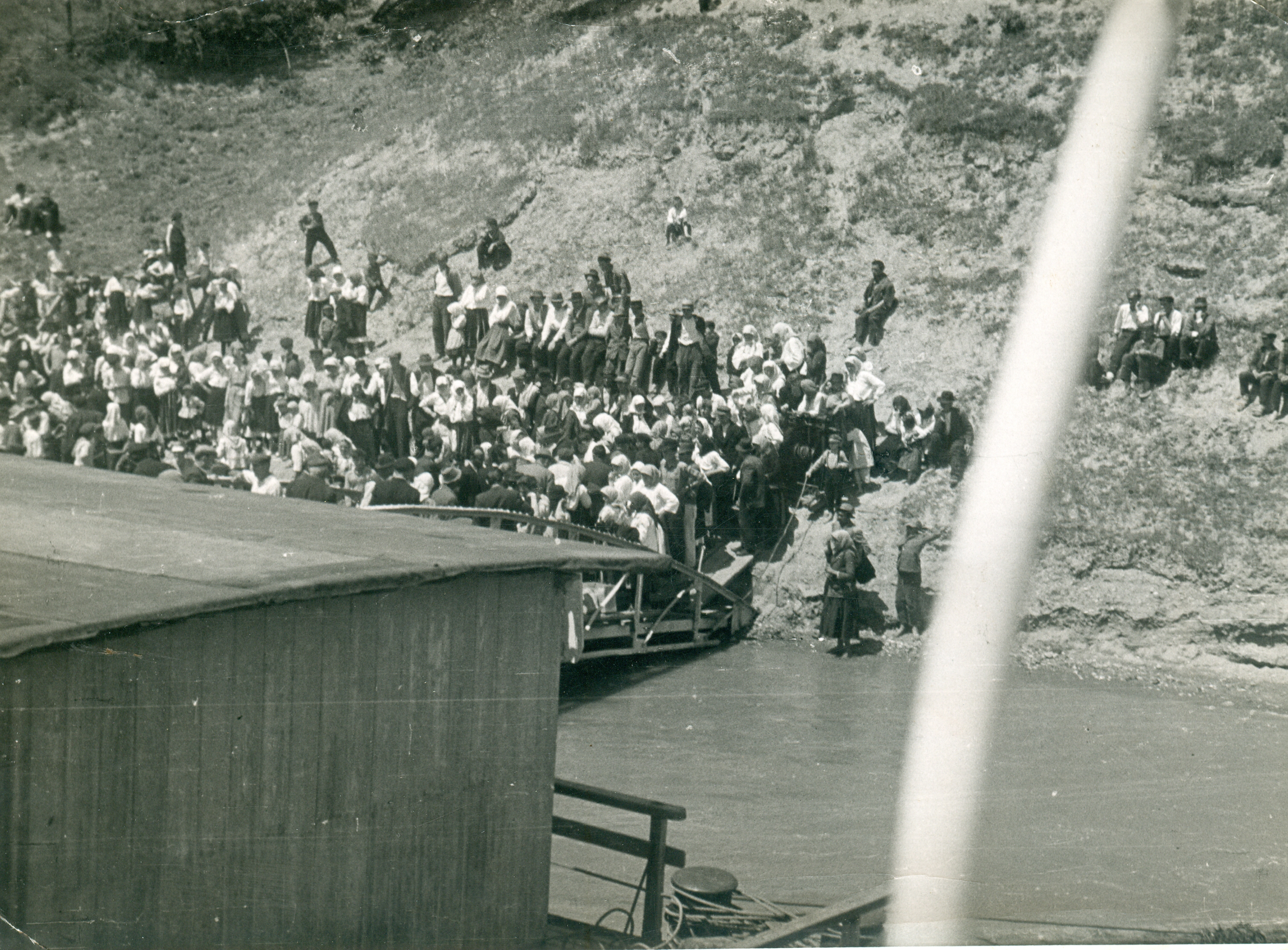 Ferry boat on Danube near Mihajlovac, Negotin 1954. Srpski (latinica): Skela na Dunavu kod Mihajlovca, blizu Negotina 1954.